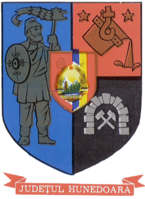 Communist coat of arms of Hunedoara County, Socialist Republic of Romania.